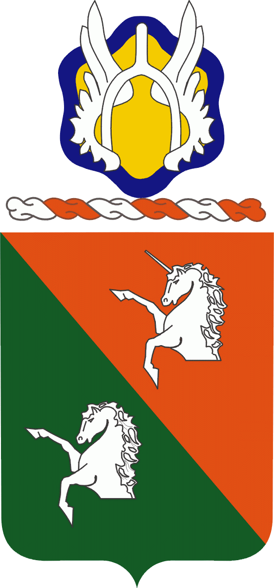 17th Cavalry Regiment Coat Of Arms. Blazon: Shield: Per bend Tenné and Vert, in sinister chief a demi-unicorn and in dexter base a demi-horse both rampant Argent. Crest: On a wreath of the colors Argent and Tenné superimposed on a hurt wavy of six voided similarly Or a winged spur Argent. Motto: FORWARD. Symbolism: Shield: The shield is taken from the coat of arms of the parent organizations: The First, Third, Sixth, Eighth and Fourteenth Cavalry Regiments. The orange is representative of the uniform facings of the First Cavalry (the old First Dragoons), and the green alludes to the uniform facings of the Third Cavalry (the old Mounted Rifles). The demi-unicorn is taken from the shield of the Sixth Cavalry and the demi-horse from the Eighth Cavalry. The diagonal line is symbolic of the Fourteenth Cavalry. Crest: The winged spur is emblematic of cavalry and speed. The blue ribbon alludes to service with the American Expeditionary Forces. Background: The coat of arms was approved on 19 June 1923. It was amended to change the symbolism on 23 June 1960. The coat of arms was amended to revise the symbolism on 15 September 1987.